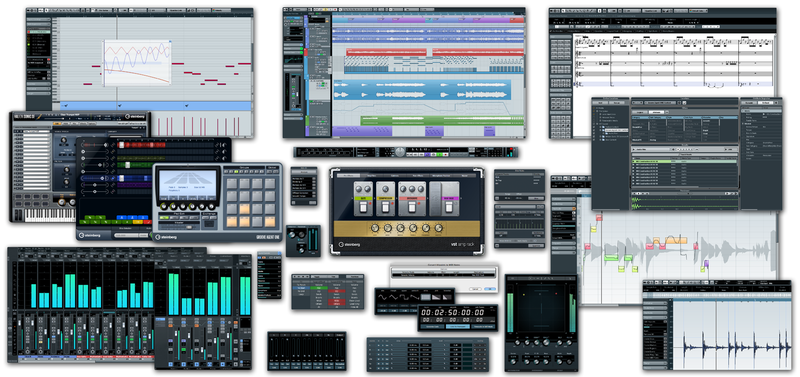 Cubase 6 feature collage Licensed under CC-BY-SA-3.0 on . Archived from the original on 2011-11-09.